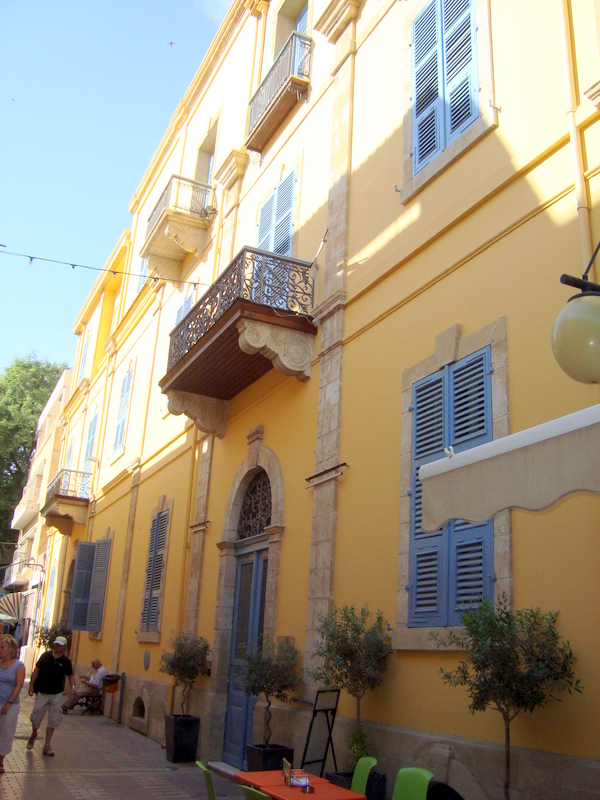 Leventio Municipal Museum in Nicosia Cyprus. In Leventio Museum visitors can find ancient and modern historic pieces of Cyprus history from Ancient Times to British colonisation period of Cyprus